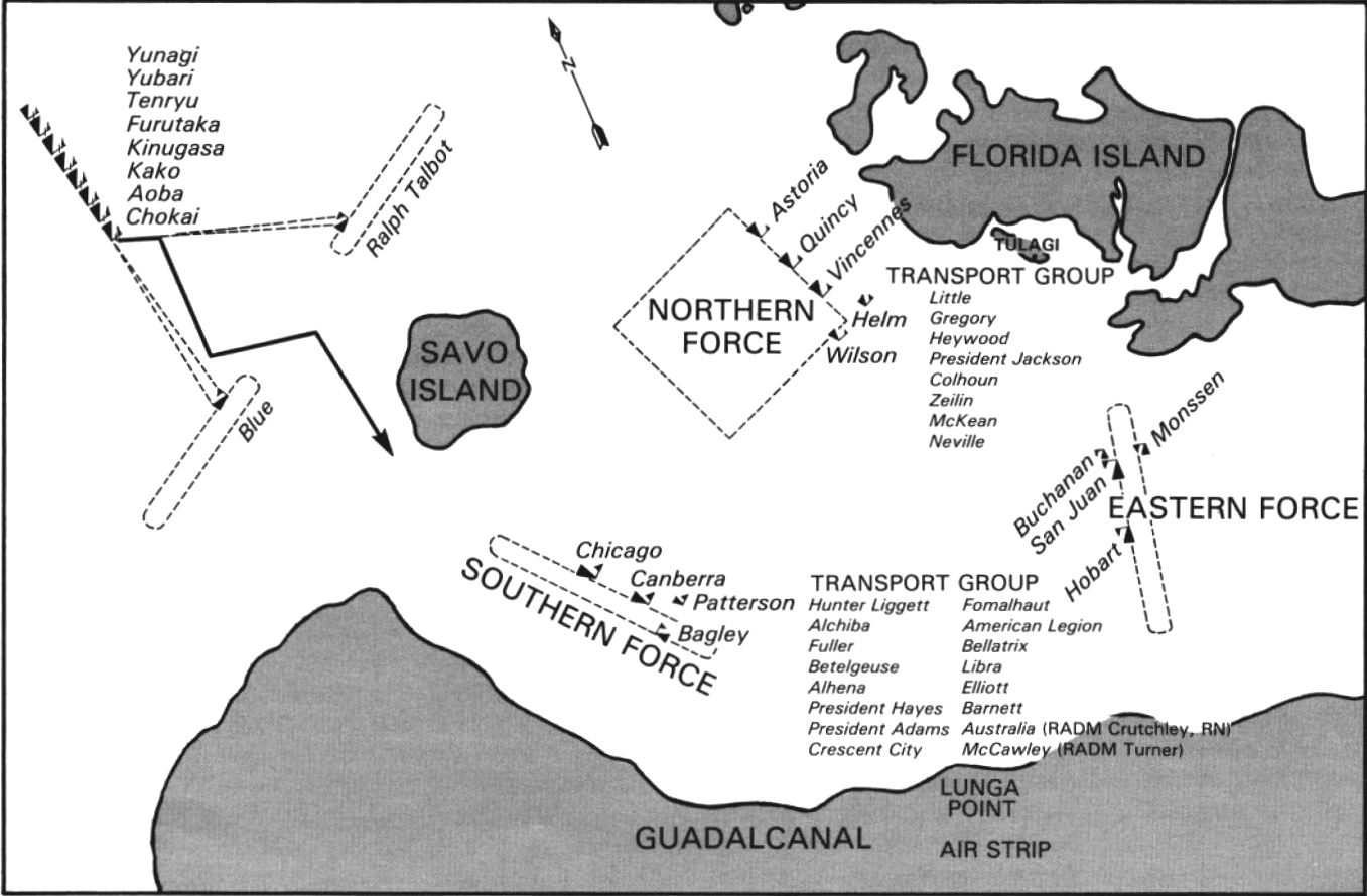 Map showing the disposition of the Imperial Japanese and U.S. forces at the beginning of the Battle of Savo Island, circa 0100-0120 hrs on 9 August 1942.